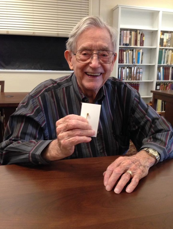 Dr. James R. Biard holding an SNX-100 GaAs IR LED